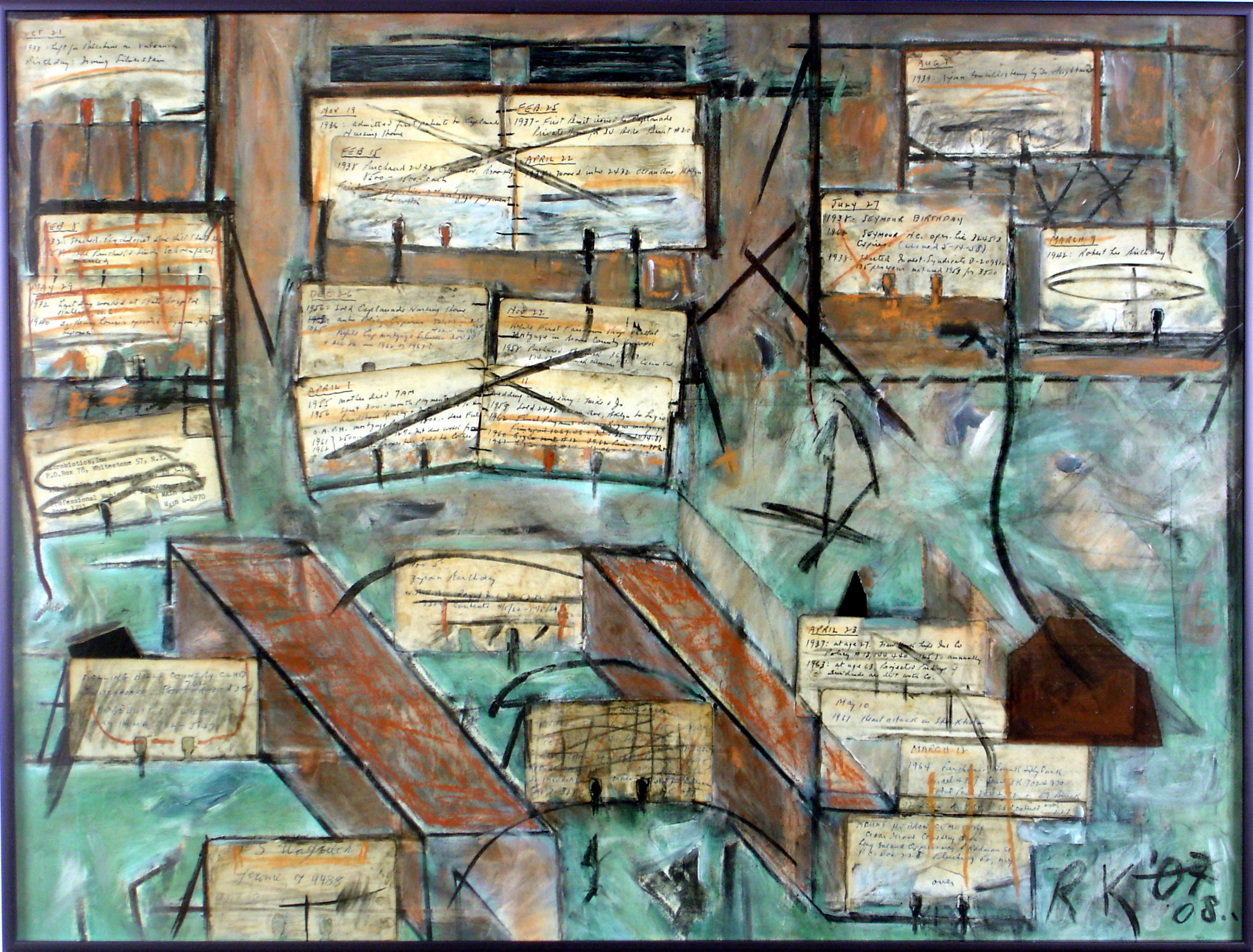 "Family History" — by Robert Kehlmann (2008). Sandblasted hand-blown glass, mixed media. Kehlmann Studio Archive.